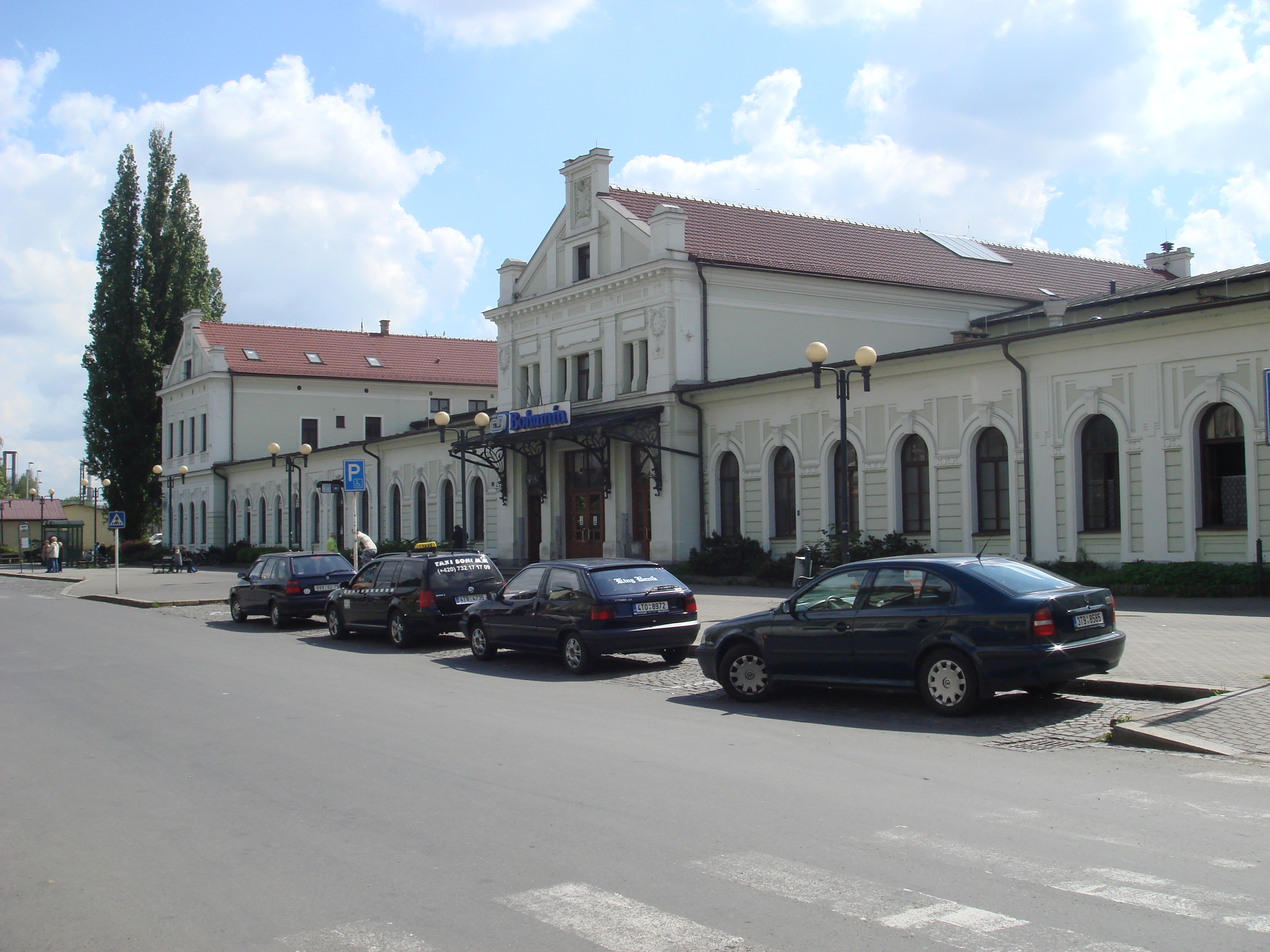 Railway station in Bohumín (Moravian-Silesian Region, Czech Republic).